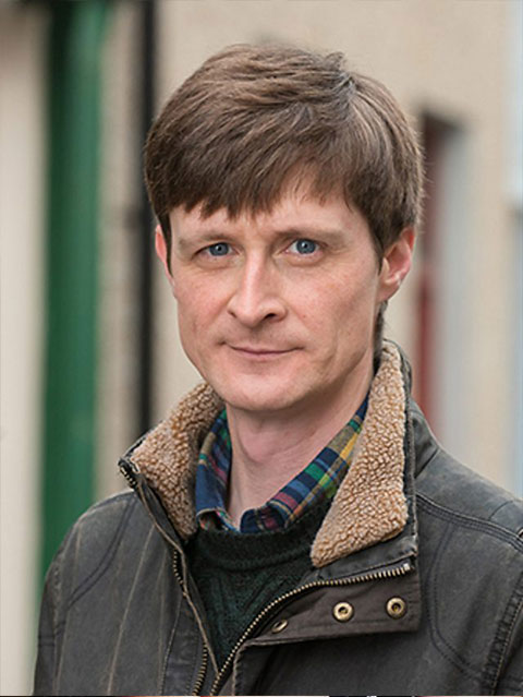 Updated picture of Welsh actor Aled Pugh